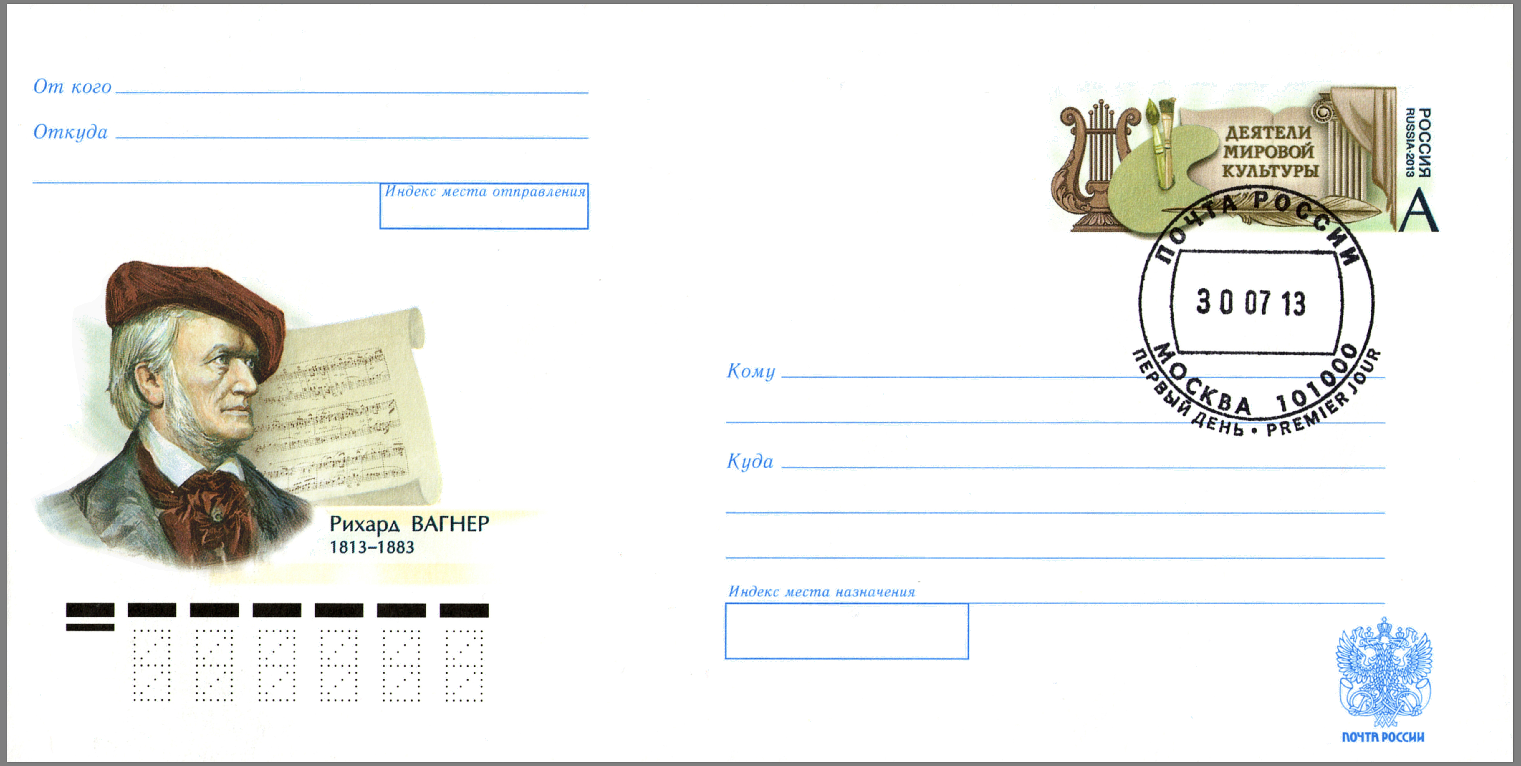 Figures of the World Culture (an ongoing series of postal stationery envelopes). The 200th birth anniversary of Richard Wagner (1813—1883), a German composer and an art theoretician. The illustrated postal stationery envelope with commemorative stamp, Russia, 30 July 2013. PTC Marka Catalogue No 244/кор-13. Envelope paper VBM (ВБМ) with watermarks “ПОЧТА РОССИИ”. Offset printing. Size of the envelope: 110×220 mm. Print run: 1,000,000. The non-denominated stamp of the ongoing series with symbols of arts (“Letter A”, for domestic letters, weight 20 g or less). The illustration: the portrait of Richard Wagner; a fragment of the score of Lohengrin. The cancellation with the universal first day postmark, Moscow, 30 July 2013.